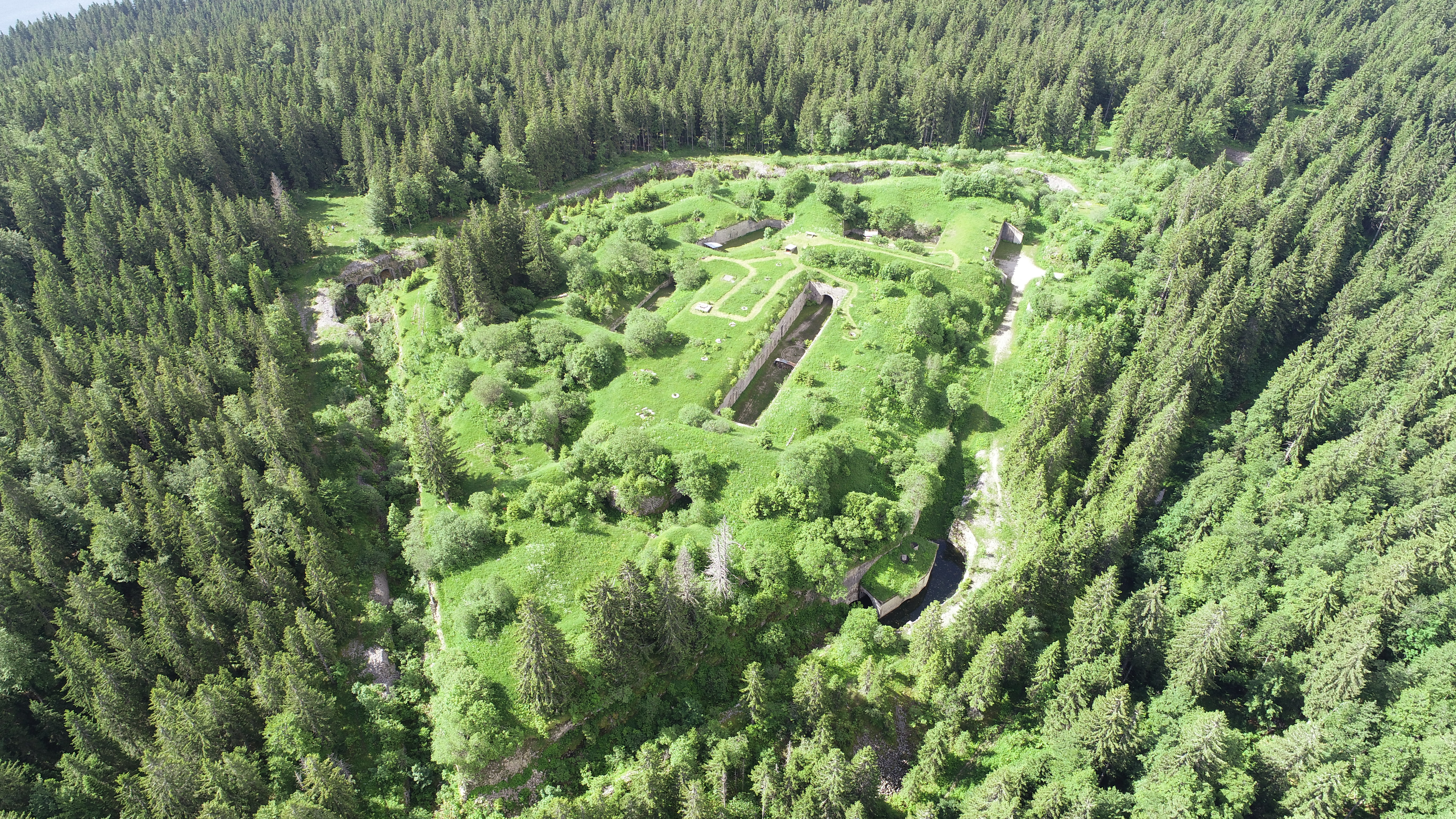 Fort du Risoux, aerial view